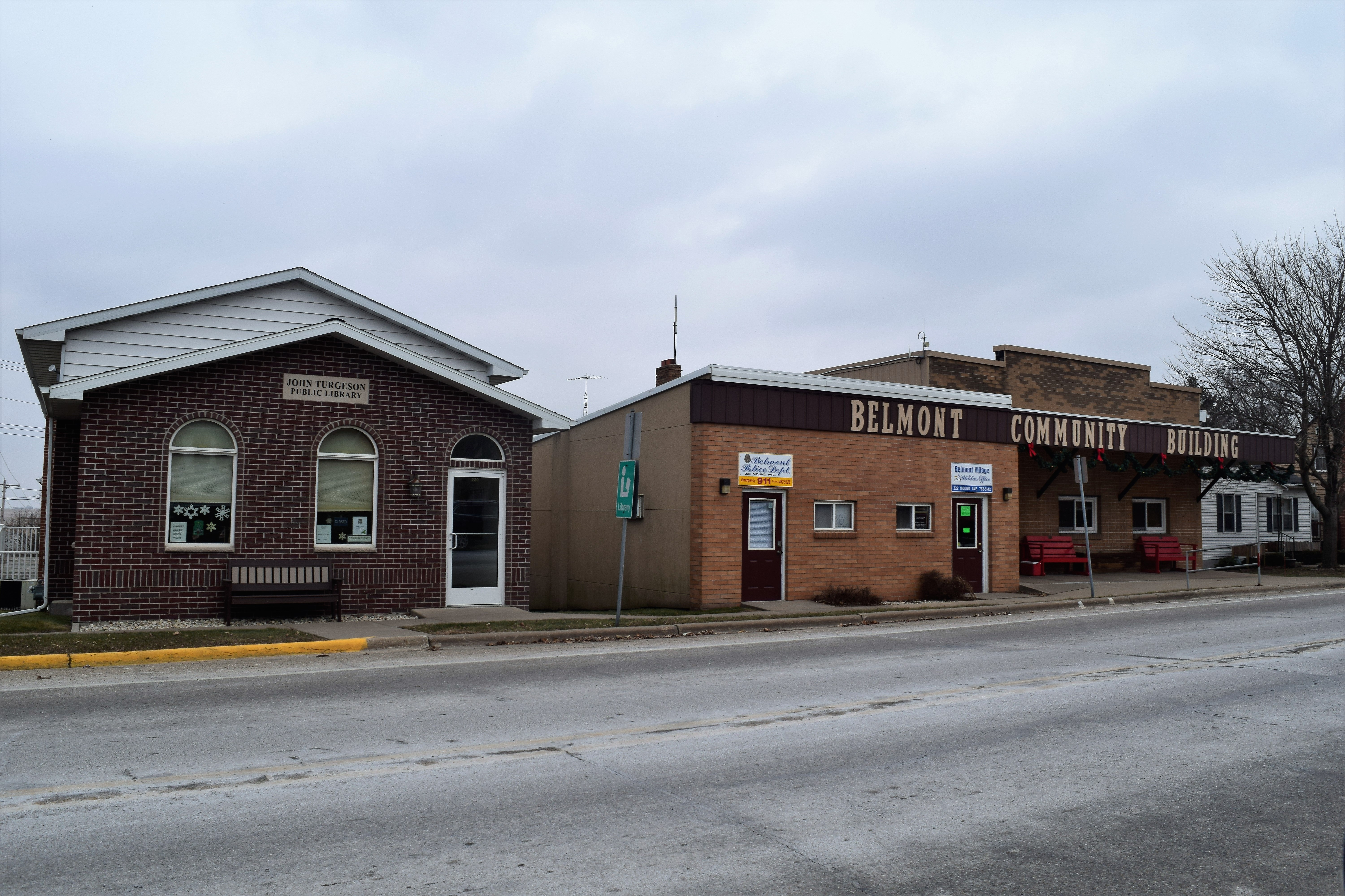 The John Turgeson Public Library and Belmont Community Building in Belmont, Wisconsin.